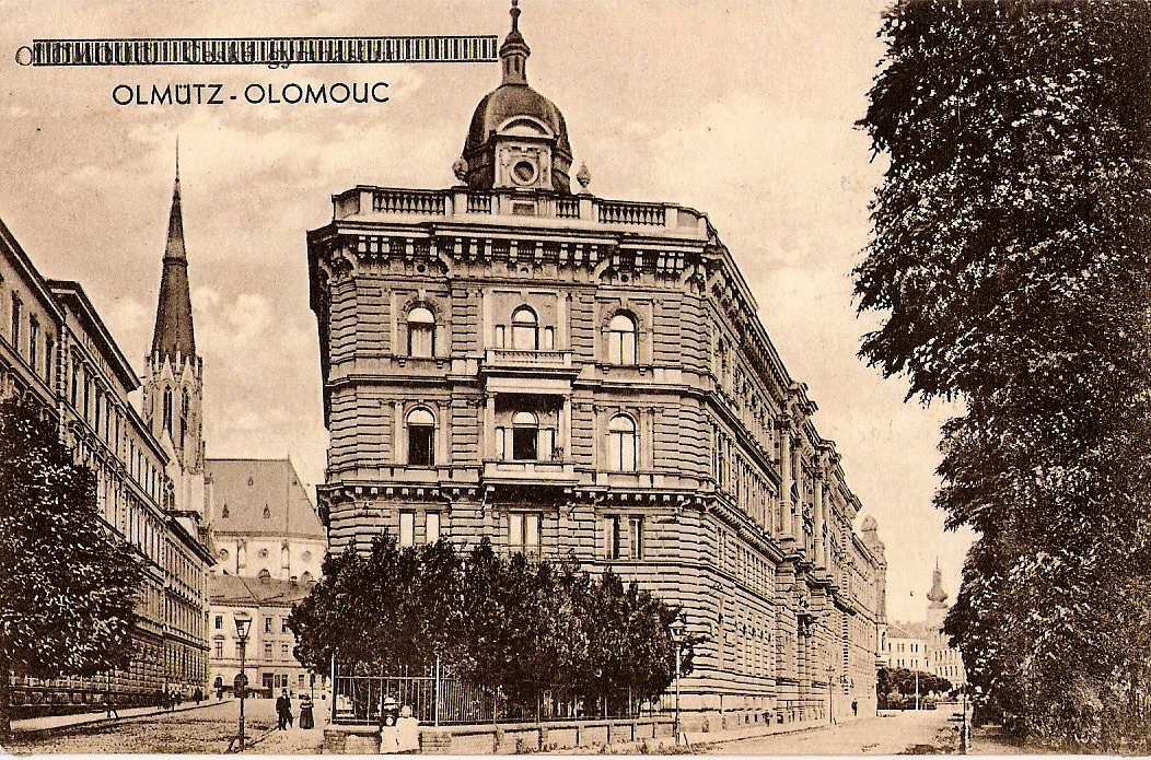 The Neorenaissance architecture in Olomouc, The Czech Republic